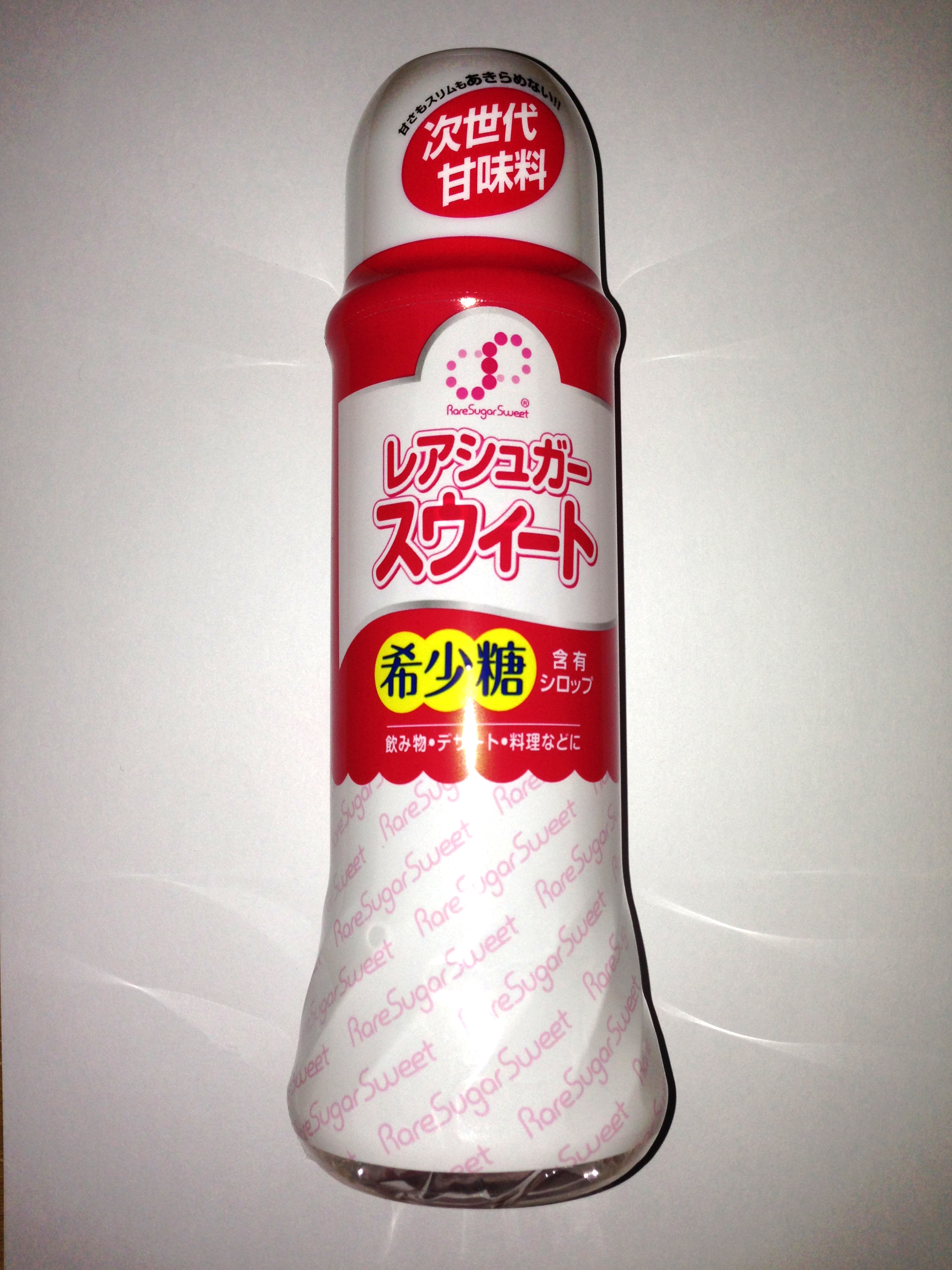 "Rare Sugar Sweet " (containing rare sugar syrup) 500g. "Rare Sugar Sweet" is a main component in syrup of glucose-fructose, contained about 15% rare sugar (such as D-psicose · D-allose). Manufacturer: Matsutani Chemical Industry Co., Ltd. Sales company: RareSweet Co., Ltd.